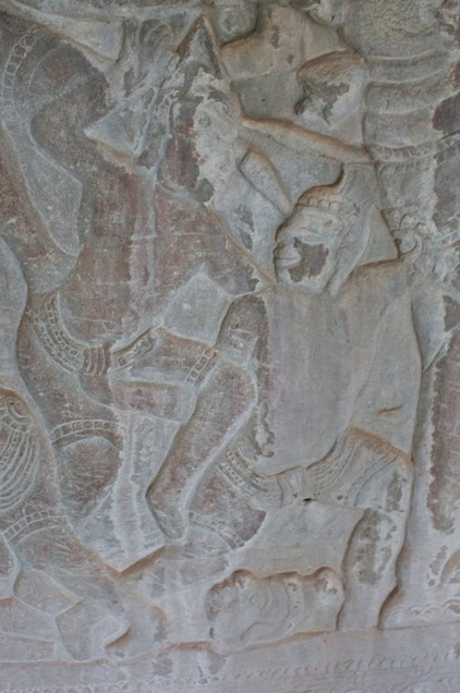 flying knee and elbow technique in khmer martial arts.